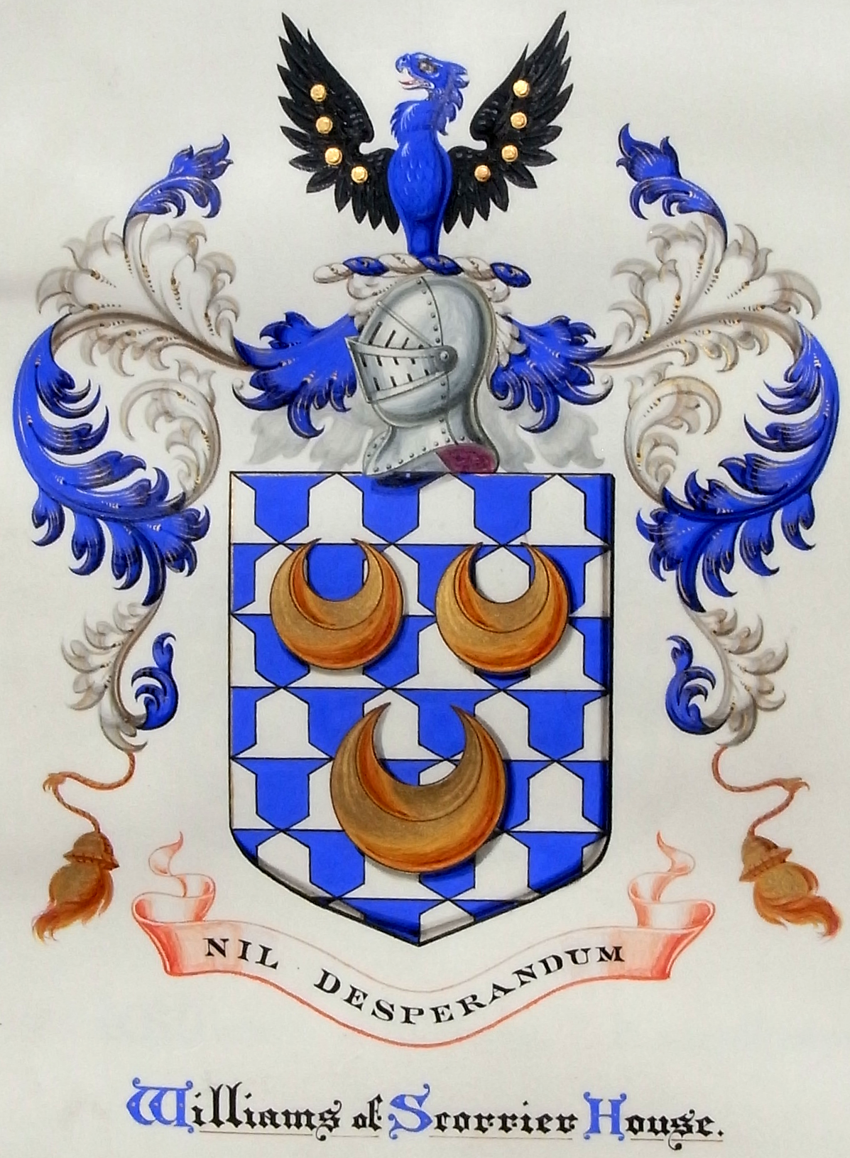 Arms of Williams of Scorrier and Tregullow in Cornwall: Vair, three crescents or. Plate from a hand-written leather-bound pedigree of the Williams family by Edward Bellasis (d.1922), Lancaster Herald of Arms in Ordinary. The property of Sir Donald Mark Williams, 10th Baronet (born 1954) of Upcott House, Pilton, Devon.